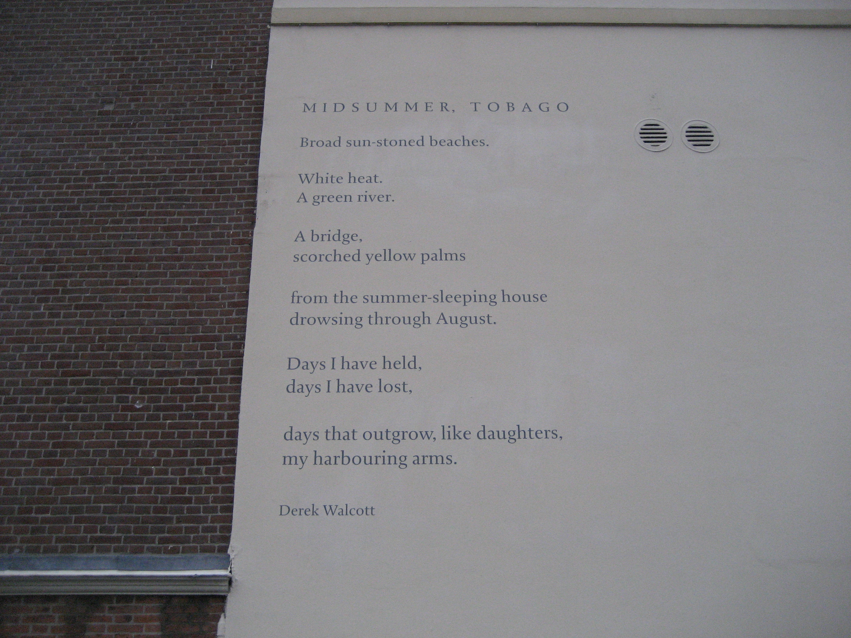 Wall poem 'Midsummer, Tobago' by Derek Walcott. Javastraat 4, The Hague (NL). Letter: Diamant;typographer Joost Dekke